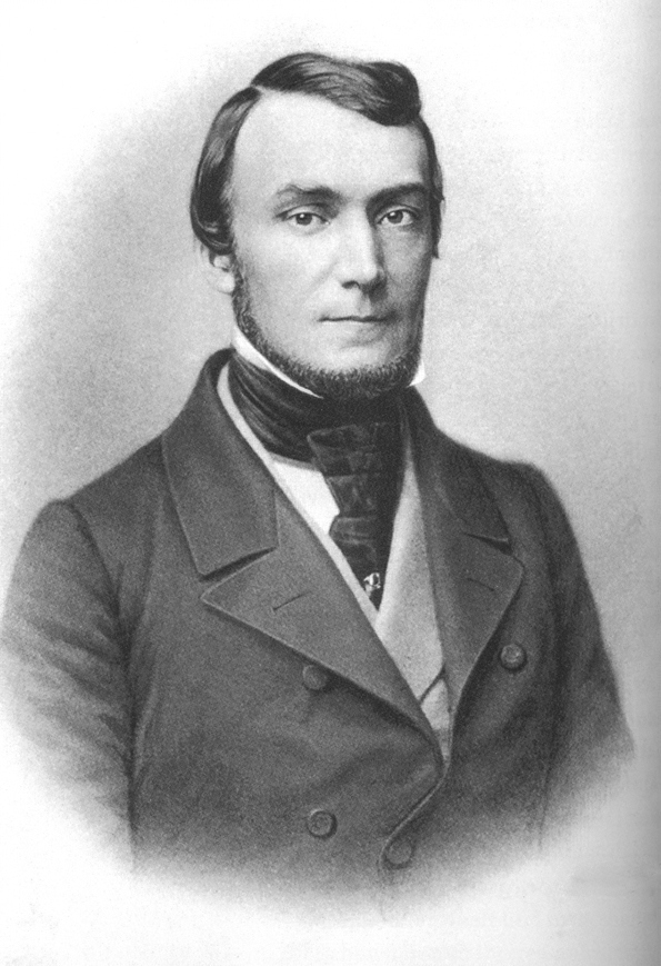 Portrait of the ornithlogist Gustav Hartlaub (1814–1900) from Bremen, Germany.